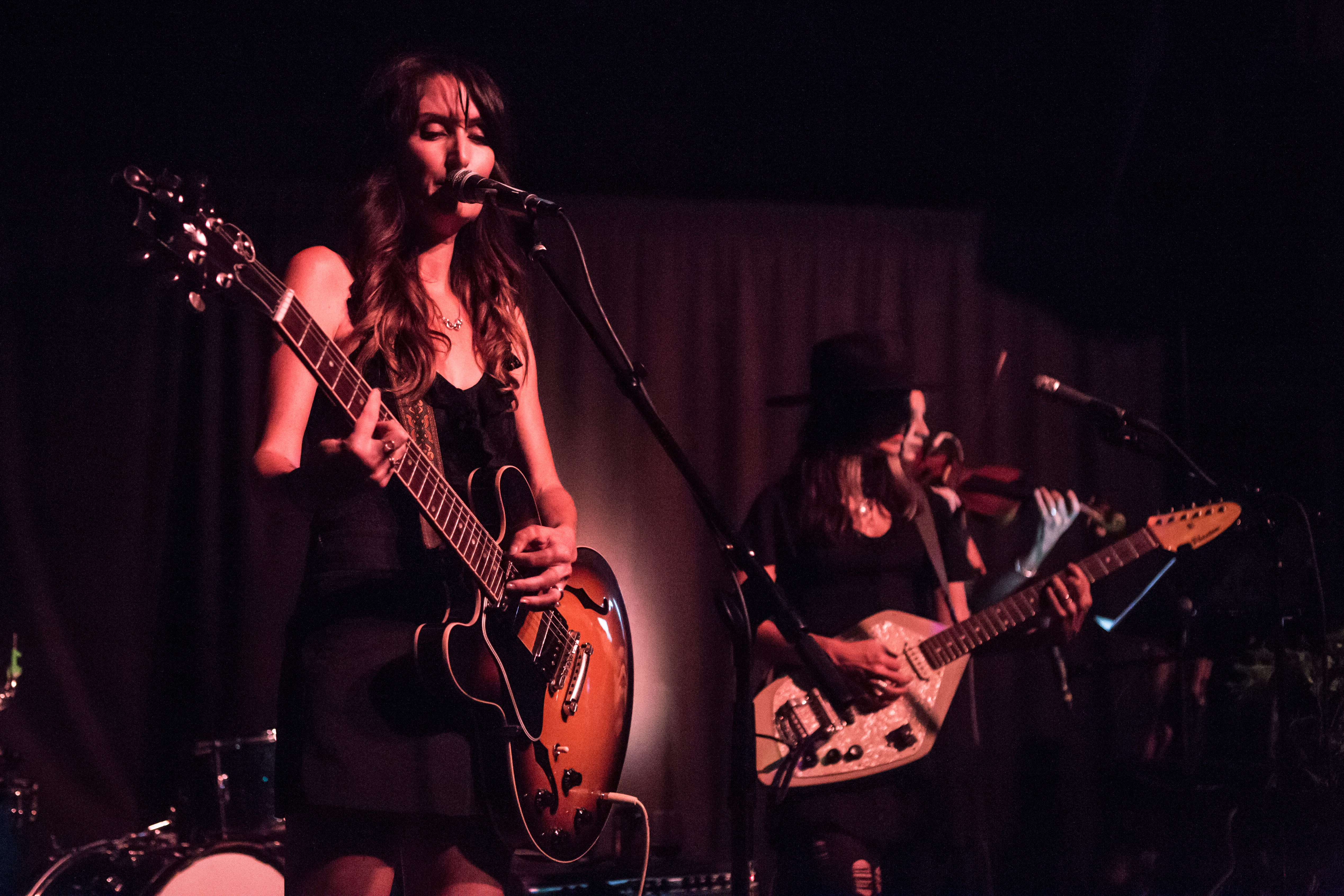 Azure Ray band with Maria Taylor and Orenda Fink live at Zebulon in Los Angeles, California in 2019. Photo by Veronika Reinert (IG @motionscape_music)